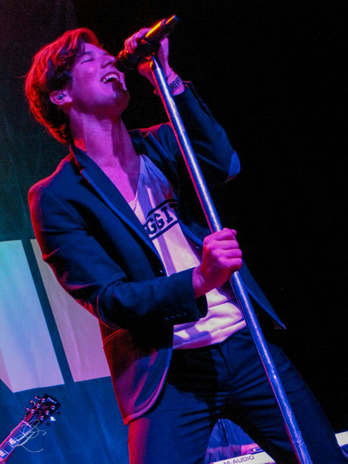 Zach Porter of Allstar Weekend performing during a show at Summit Music Hall in Denver, CO on January 19, 2012.